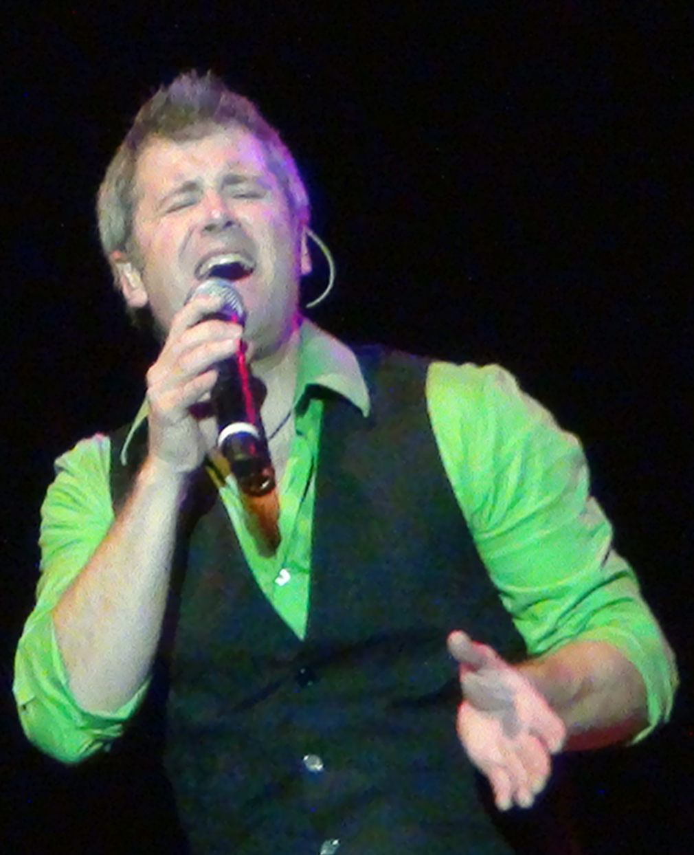 Photo taken by me from the second row of the HSBC Brasil Hall audience in the São Paulo Yes show on 28 November 2010.